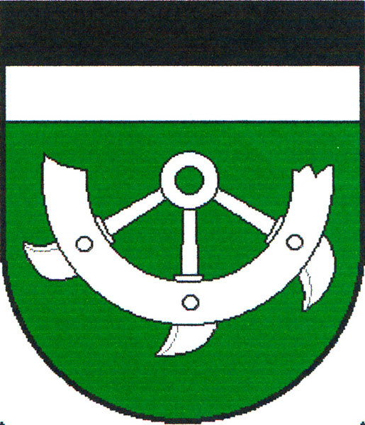 Municipal coat of arms of Nový Poddvorov village, Hodonín District, Czech Republic.